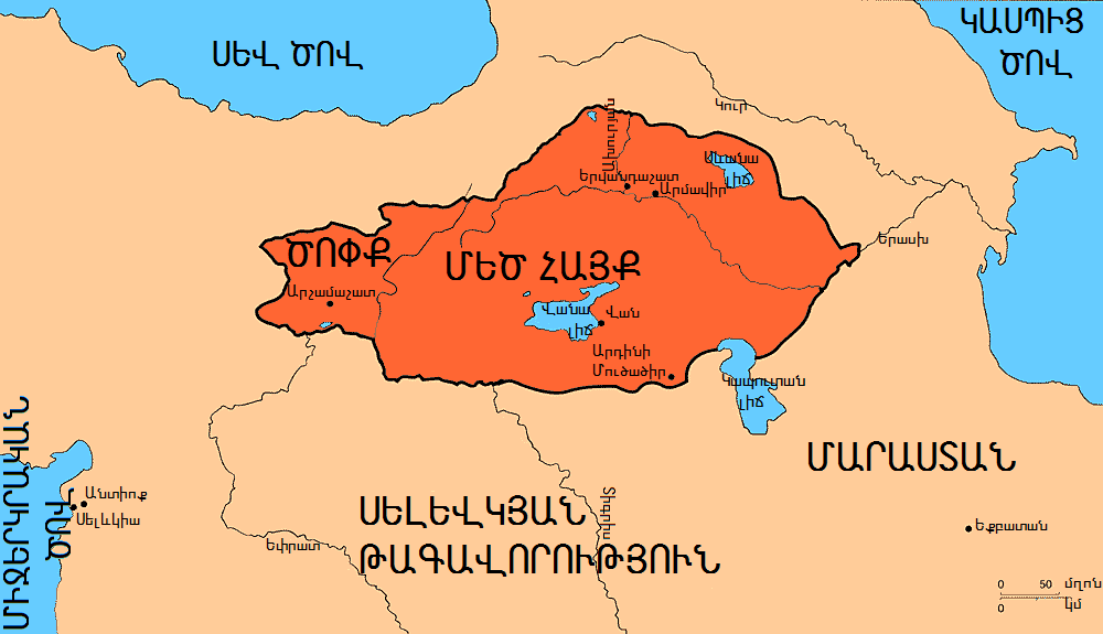 Orontid Armenia